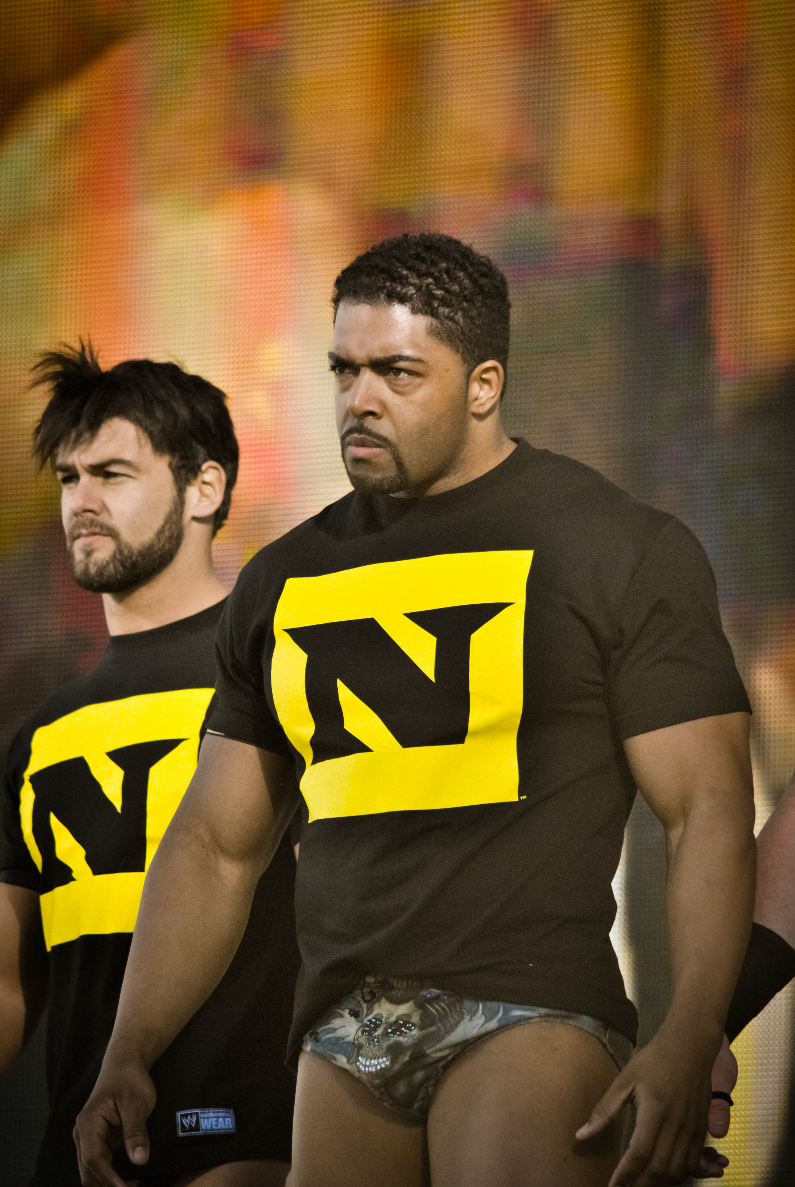 Justin Gabriel (left) and David Otunga at WWE's Tribute to the Troops show in Fort Hood, Texas, on December 11, 2010.